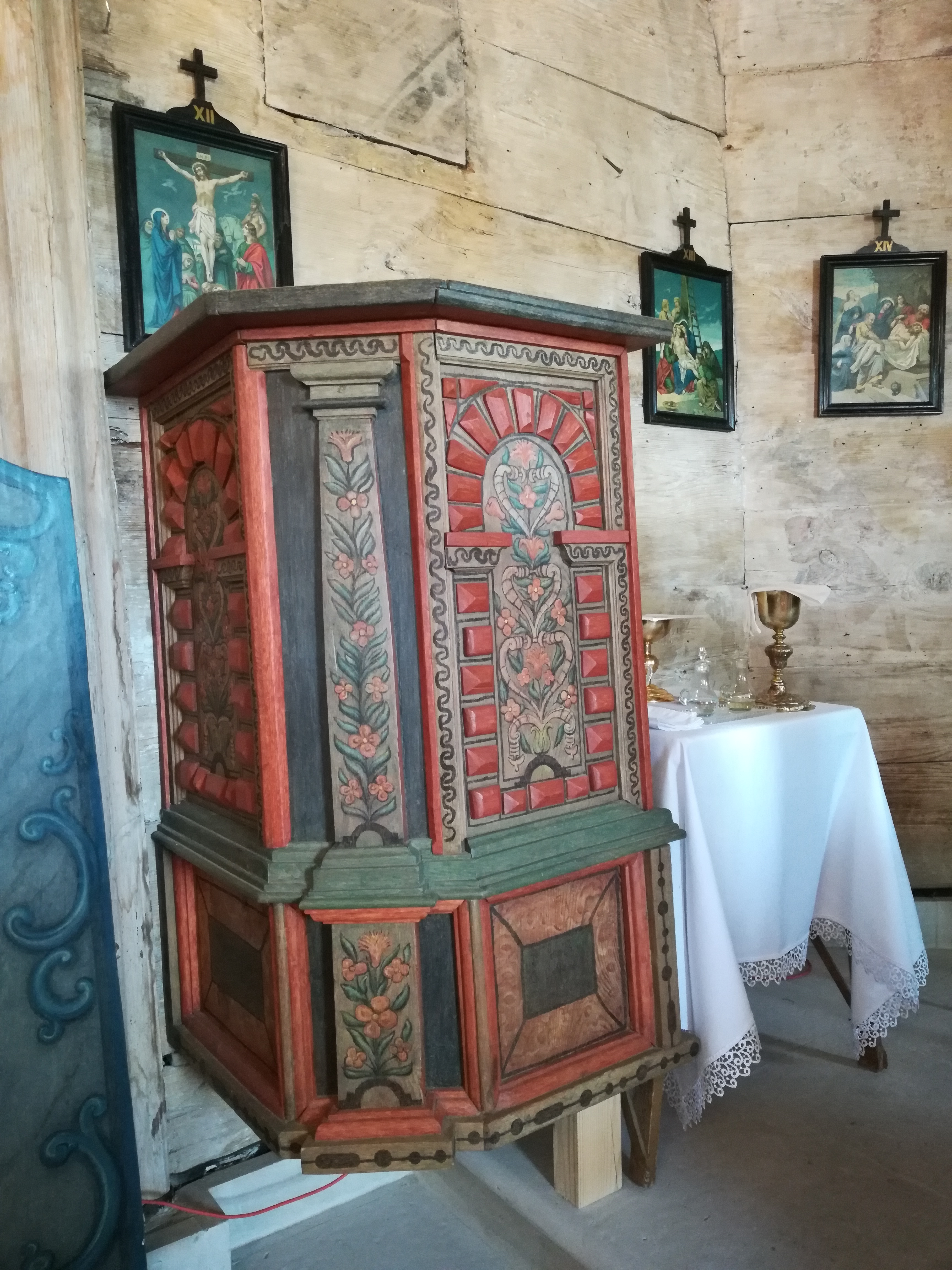 The late-Renaissance restored pulpit - the church of Saint. Stanisław Biskupa in Chotelek Zielony